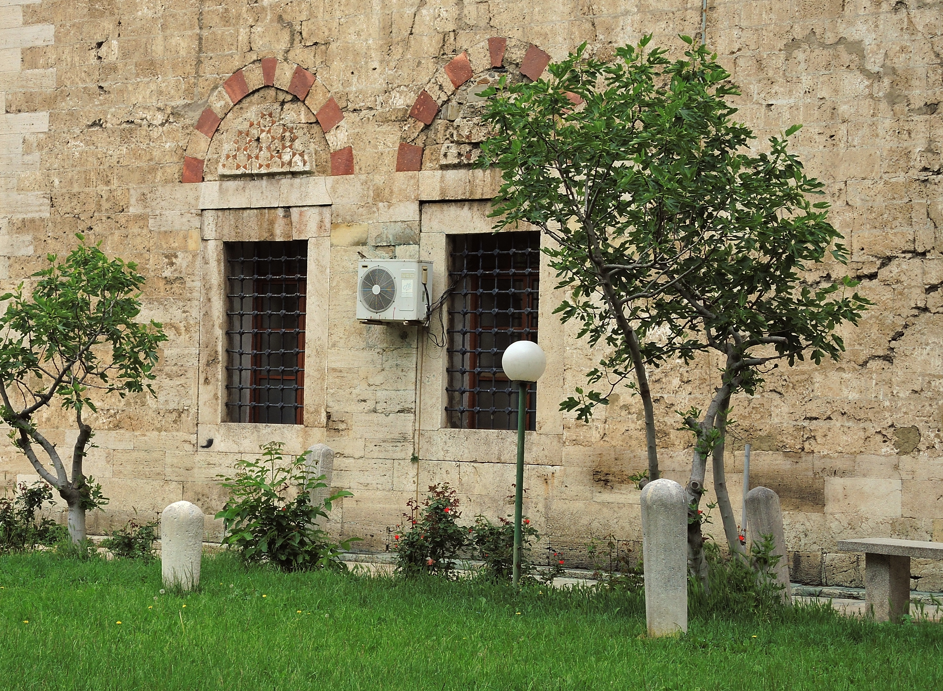 Macedonia (Skopje) Courdyard of Mosque of Yahya Pasha Macedonia